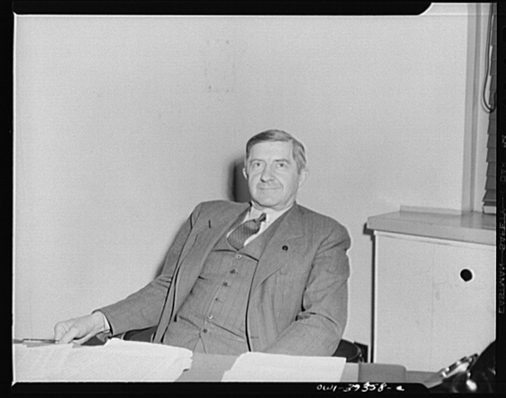 Title Washington, D.C. Reuben H. Markham, director of region V, Overseas Branch of the Office of War Information Created / Published 1943 Nov. Subject Headings - United States--District of Columbia--Washington (D.C.)